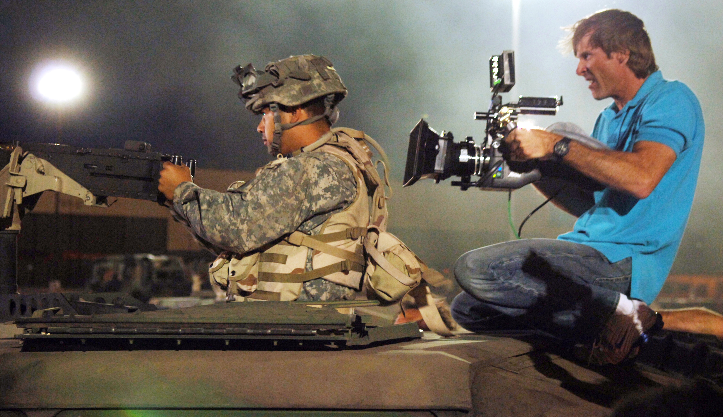 Movie director Michael Bay films a U.S. Army soldier on the set of the movie "Transformers" at Holloman Air Force Base, N.M., on May 30. Several soldiers filled roles as movie extras. The movie was released in July 2007.